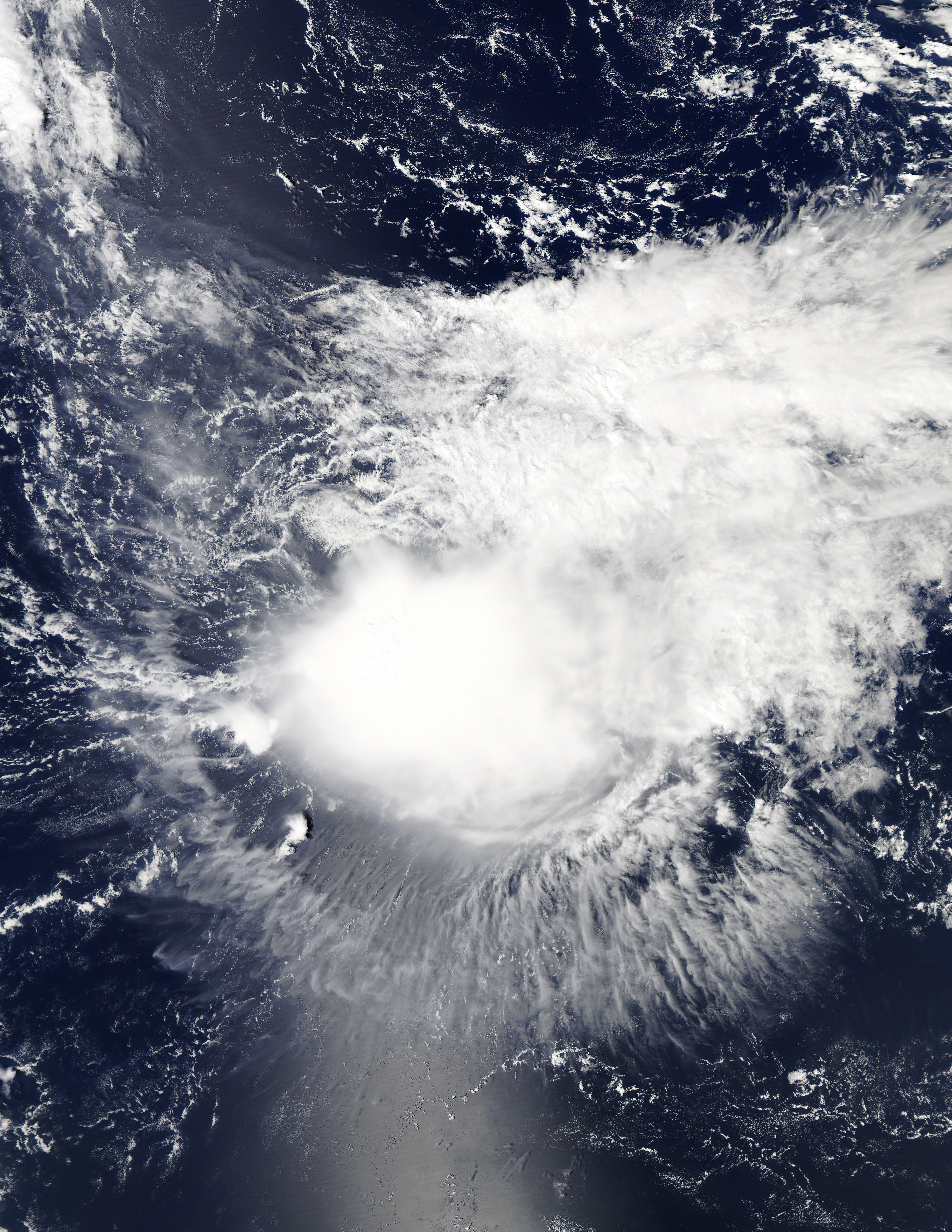 Tropical Storm Ida (10L) in the central Atlantic